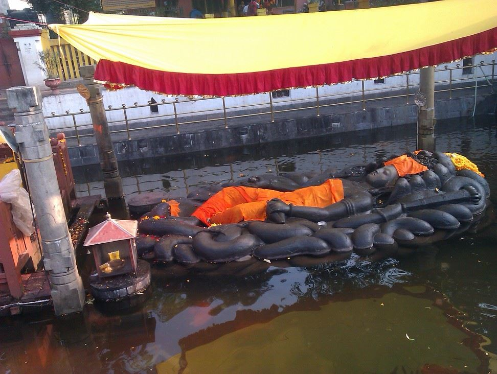 Budanilakantha Statue in Kathmandu, Nepal